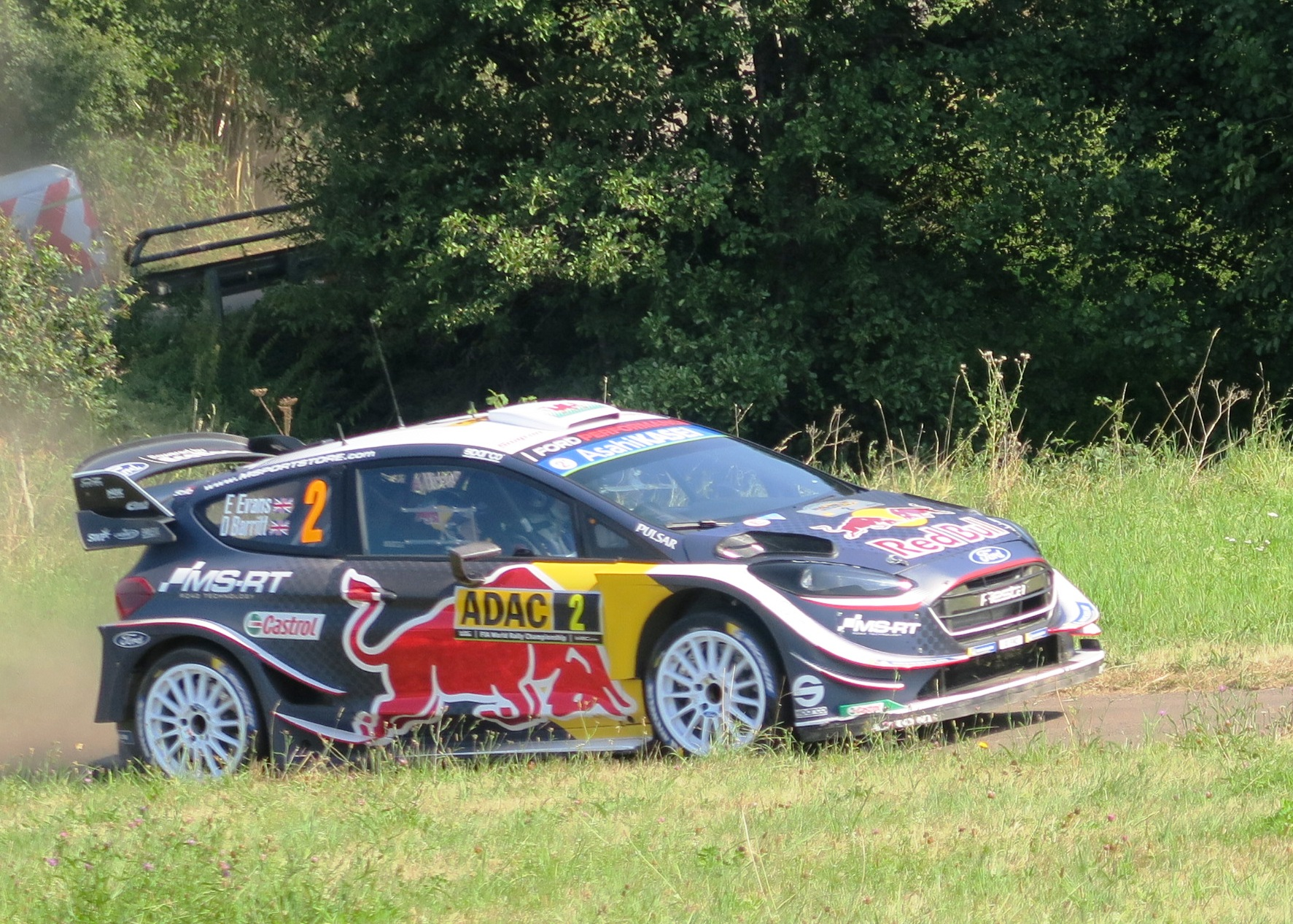 Ford Fiesta WRC of Elfyn Evans Rallye Deutschland 2018 Zuschauserzone ?5? (bei Morscheid?) "Stein und Wein"